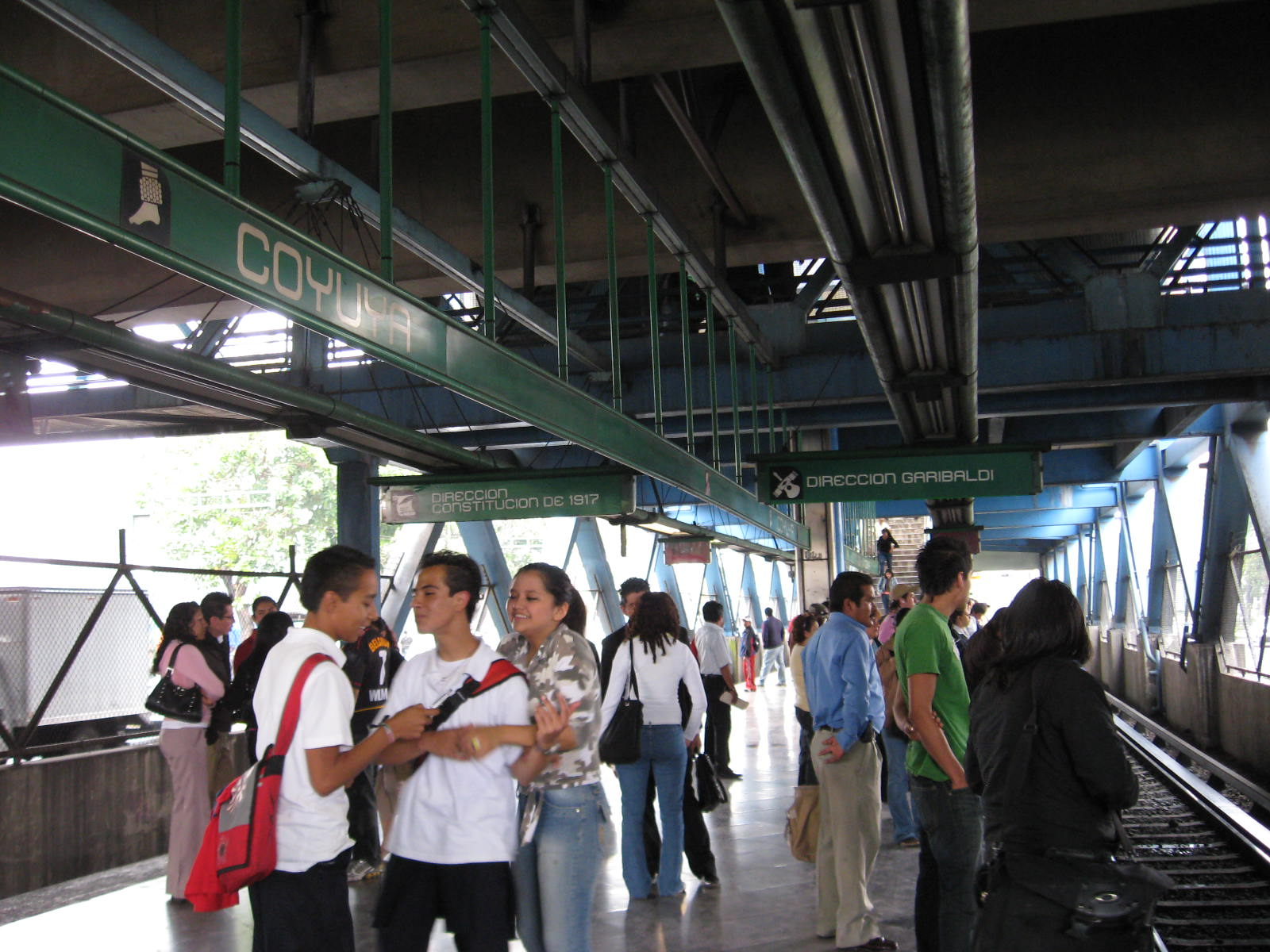 View of platform of Metro station Coyuya on Line 8 of the Mexico City Metro system